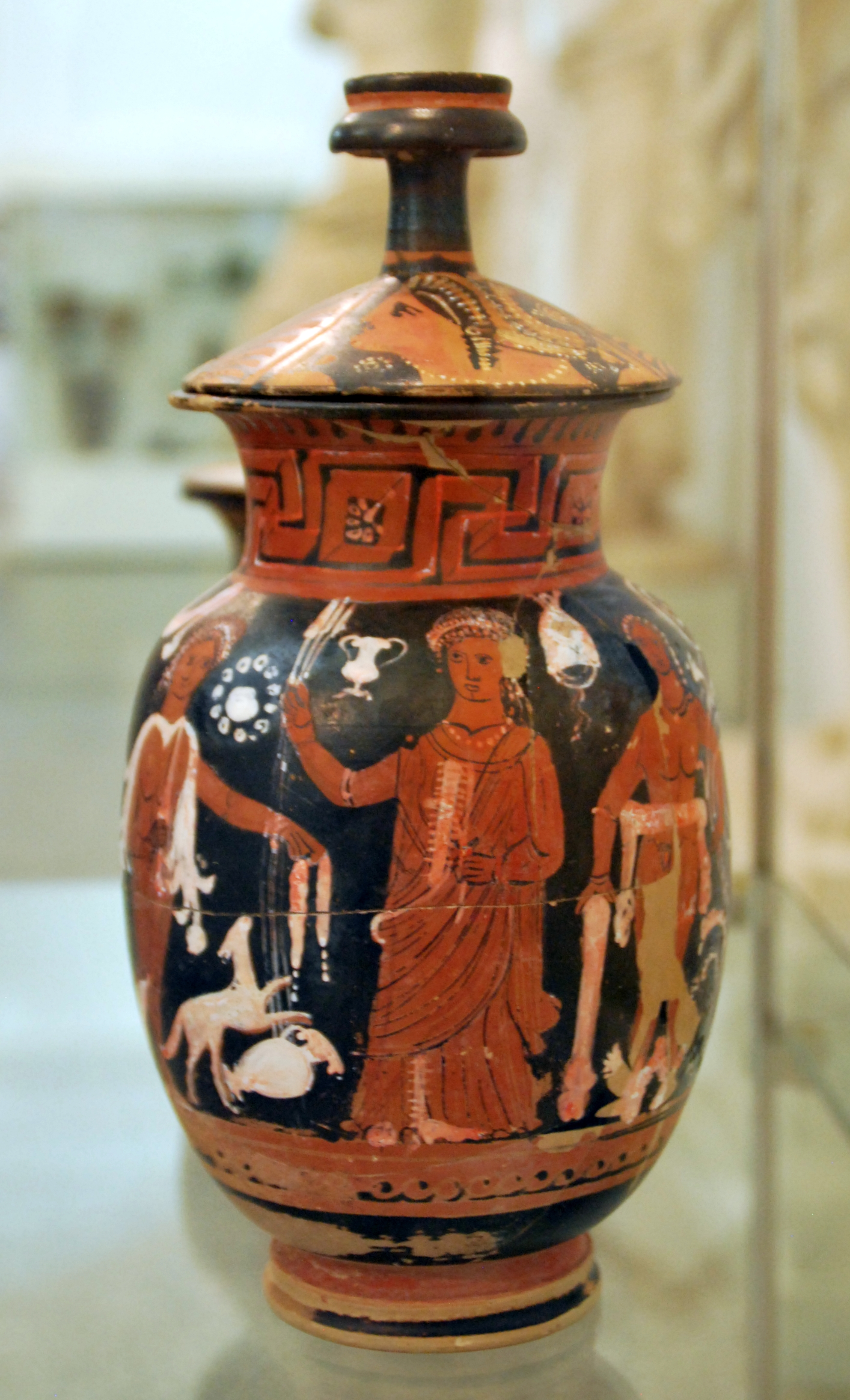 Apulian red-figure jug (Oinochoe) with lid from the circle of the White Sacco-painter; representation so far uninterpreted; late 4th Century BC; Antikensammlung Kiel, inventory number B 742.